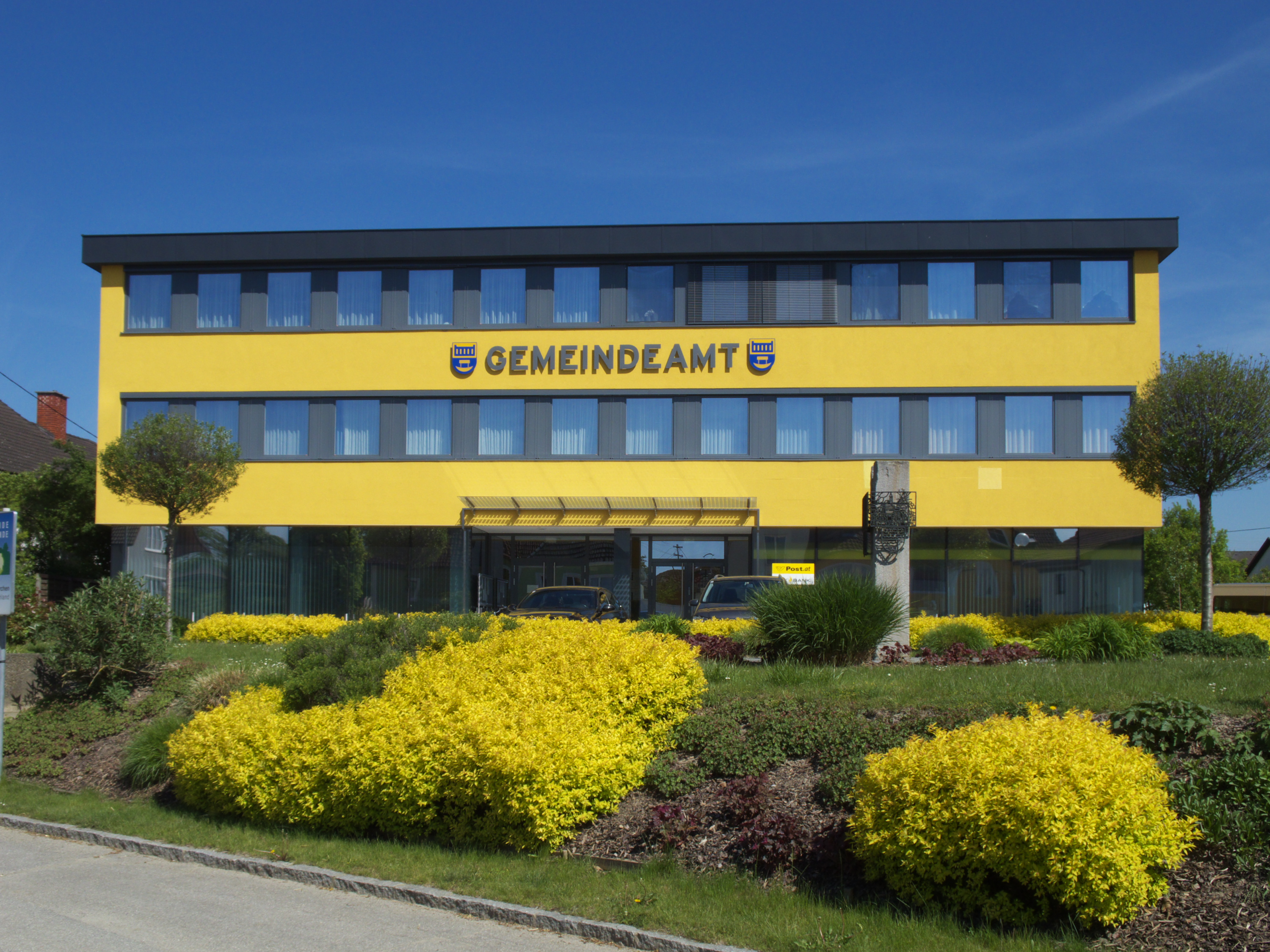 The municipal office of Mitterkirchen im Machland.